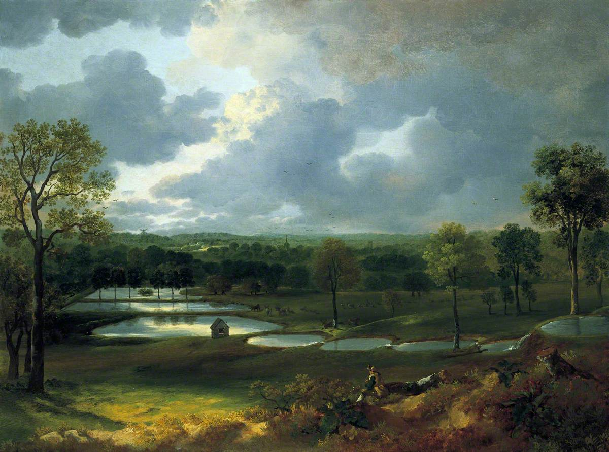 Holywells Park by Thomas Gainsborough, 1748-1750, oil on canvas, 50,8 x 66 cm., Ipswich Museum and Gallery